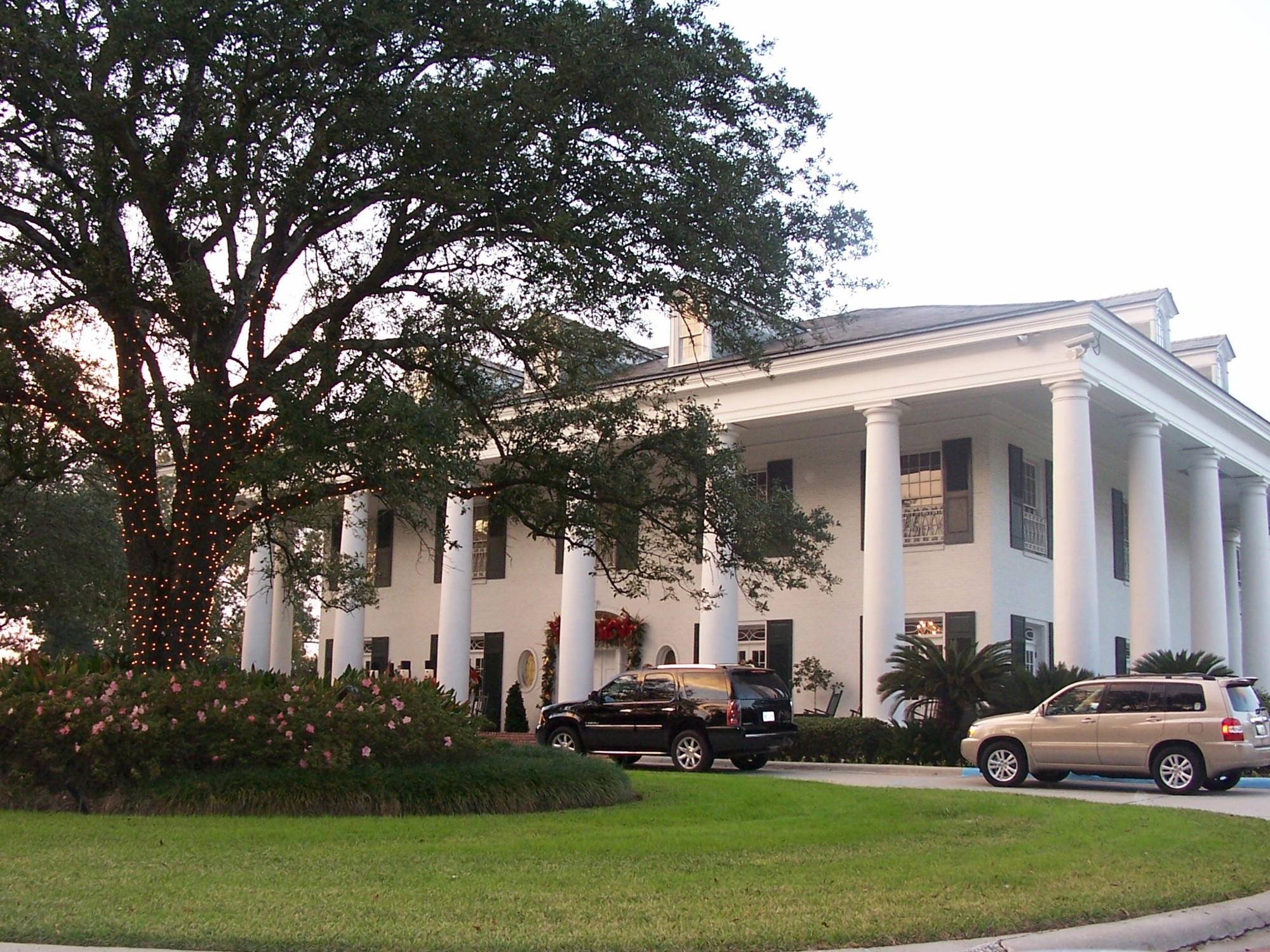 My photo of Louisiana Governor's Mansion